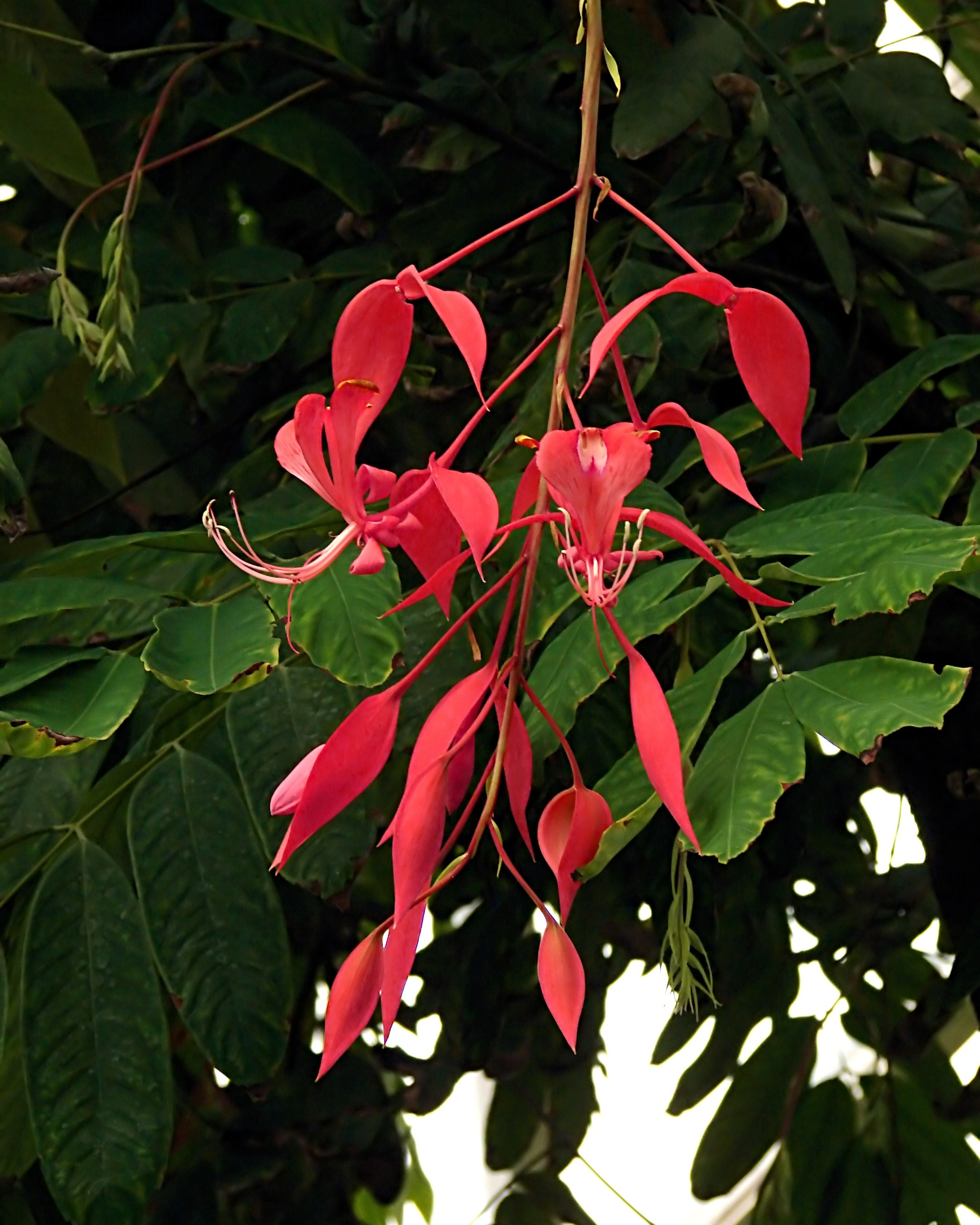 Arguably the most beautiful of flowering tropical trees, "Queen of Flowering Trees". The extravagant bright crimson red flowers are seen hanging from the long inflorescence. People who grow it, say "Hard to find, expensive and sensitive to the cold. Does not like wind. Doesn't like it's root disturbed. Do not let it dry out. Otherwise it is easy to grow!" It is the only member of the genus Amherstia The genus is named after Lady Sarah Amherst, who collected plants in Asia in the early 19th century. The tree grows to 15m tall, Endemic to Burma. Family: Caesalpiniaceae Photographed in Mt. Coot-tha Botanic garden (Tropical Dome), Brisbane Australia.